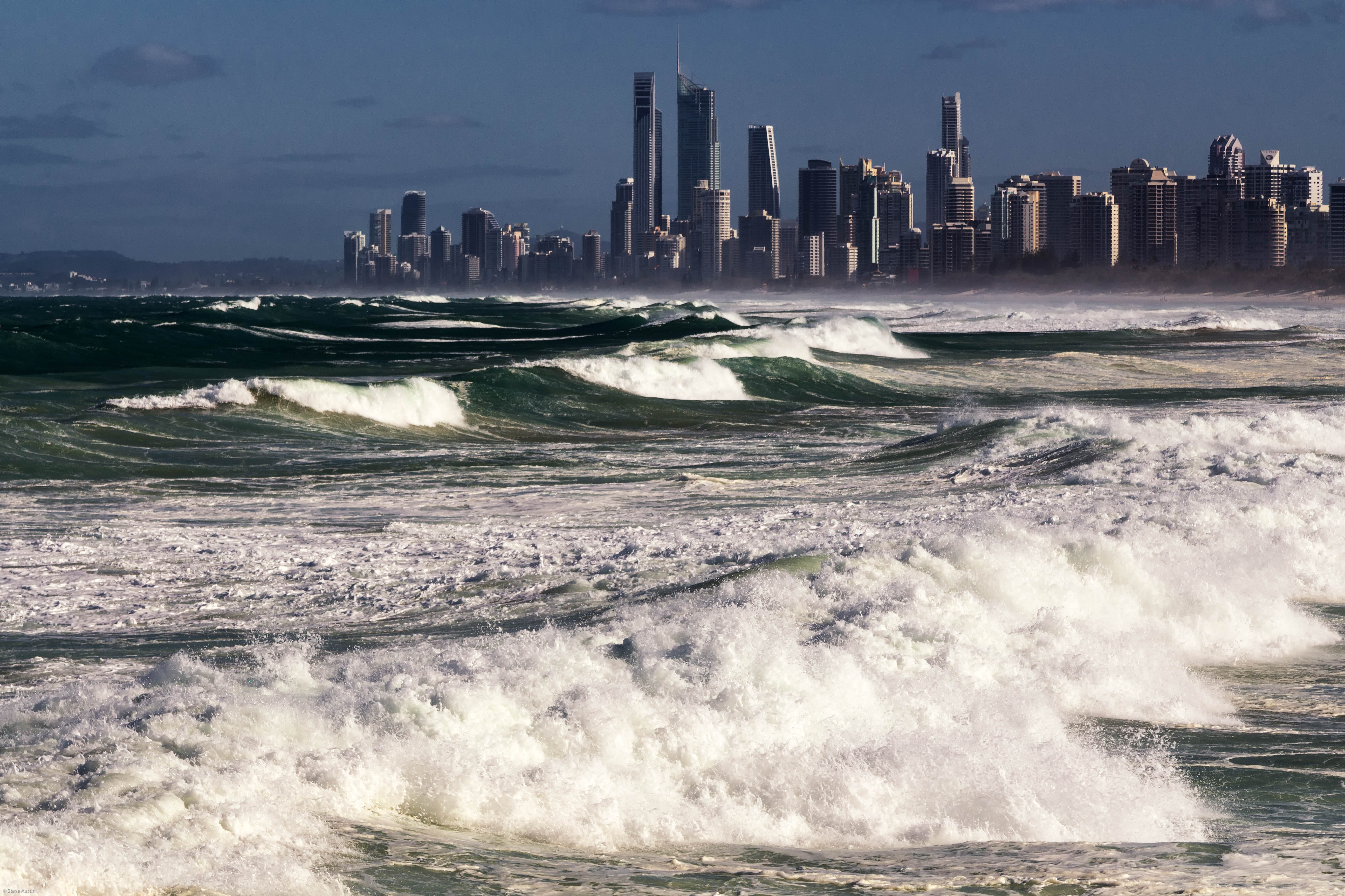 Rough seas produced by the remnants of Cyclone Winston along the shores of Gold Coast, Queensland.